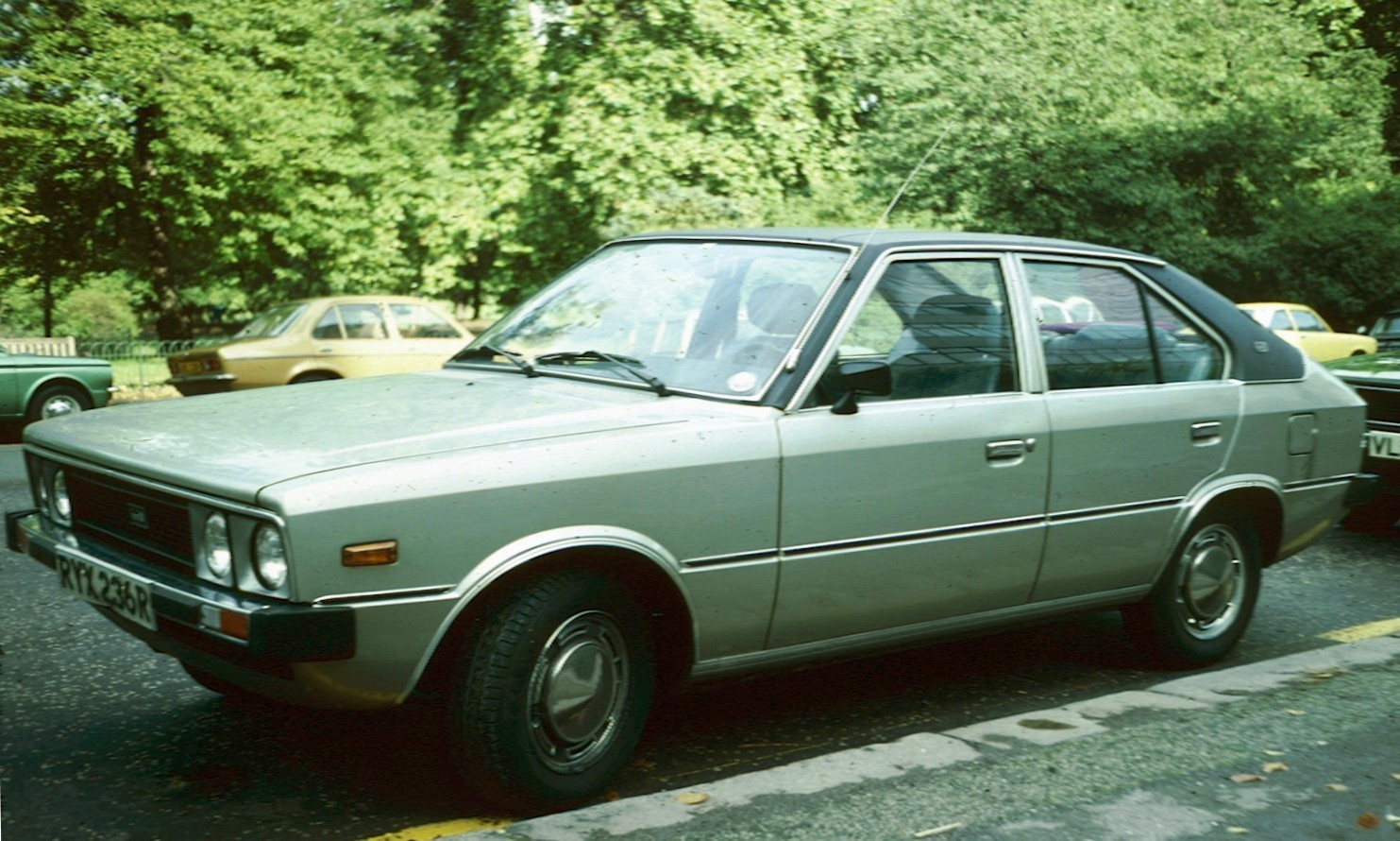 Hyundai Pony when first imported into UK